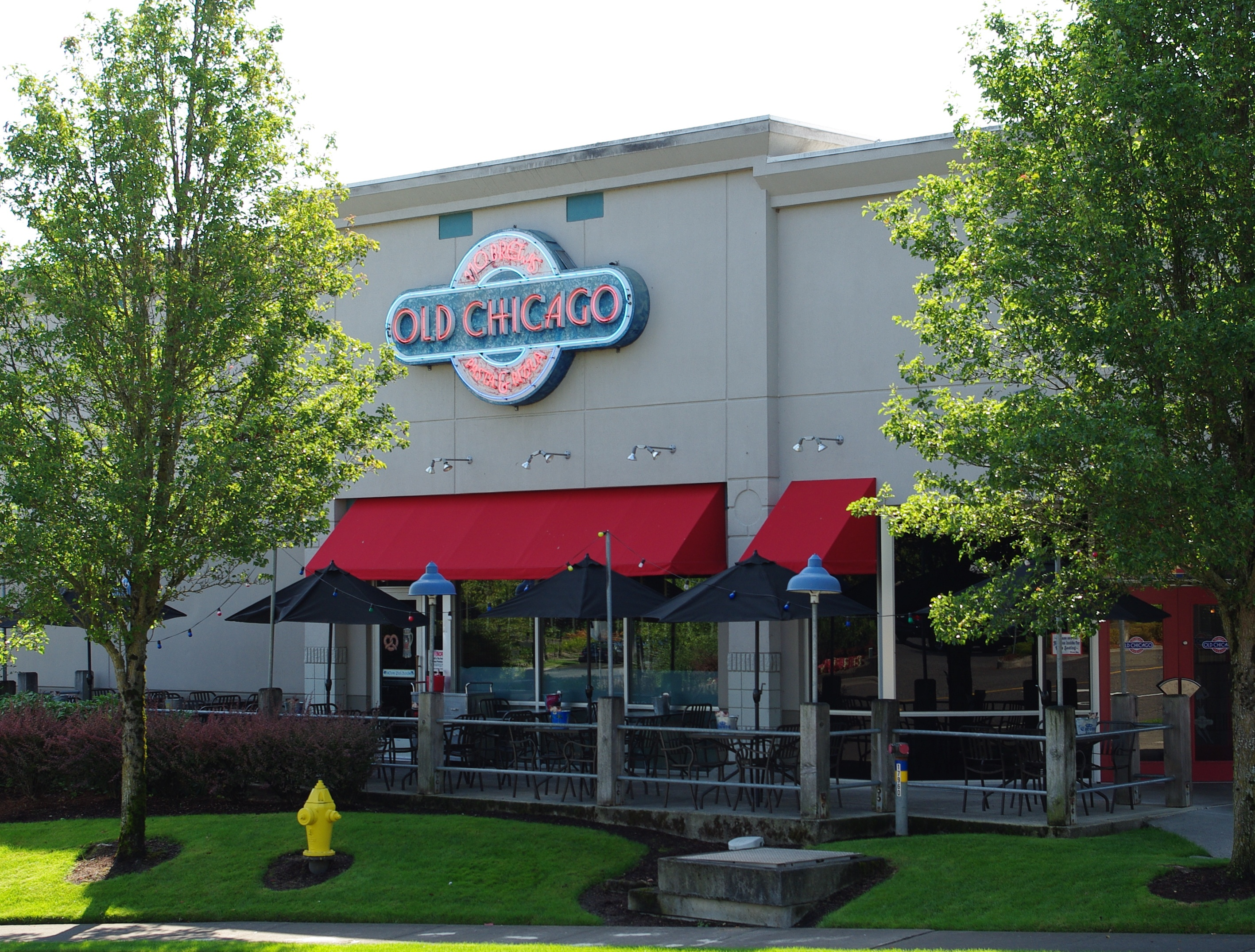 Old Chicago in the Tanasbourne area of Hillsboro, Oregon.